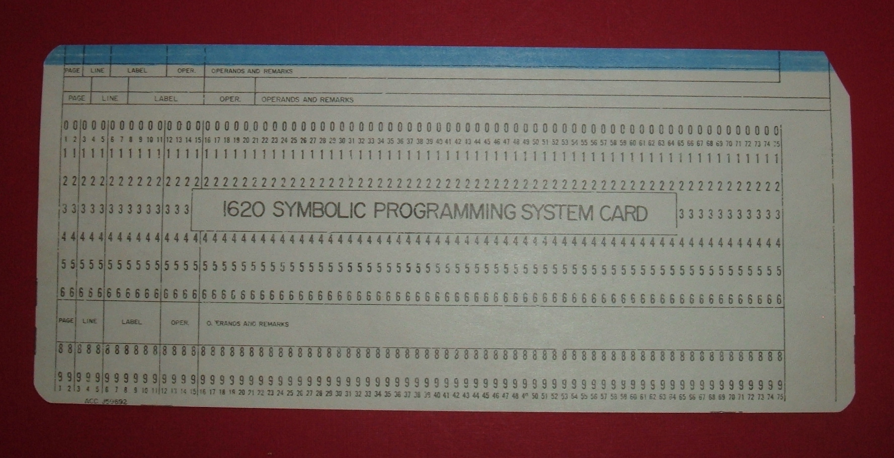 A punch card used with the IBM 1620 Symbolic Programming system. I took this picture of an artifact in my possession. The card itself was created before 1970 and has no copyright notice.